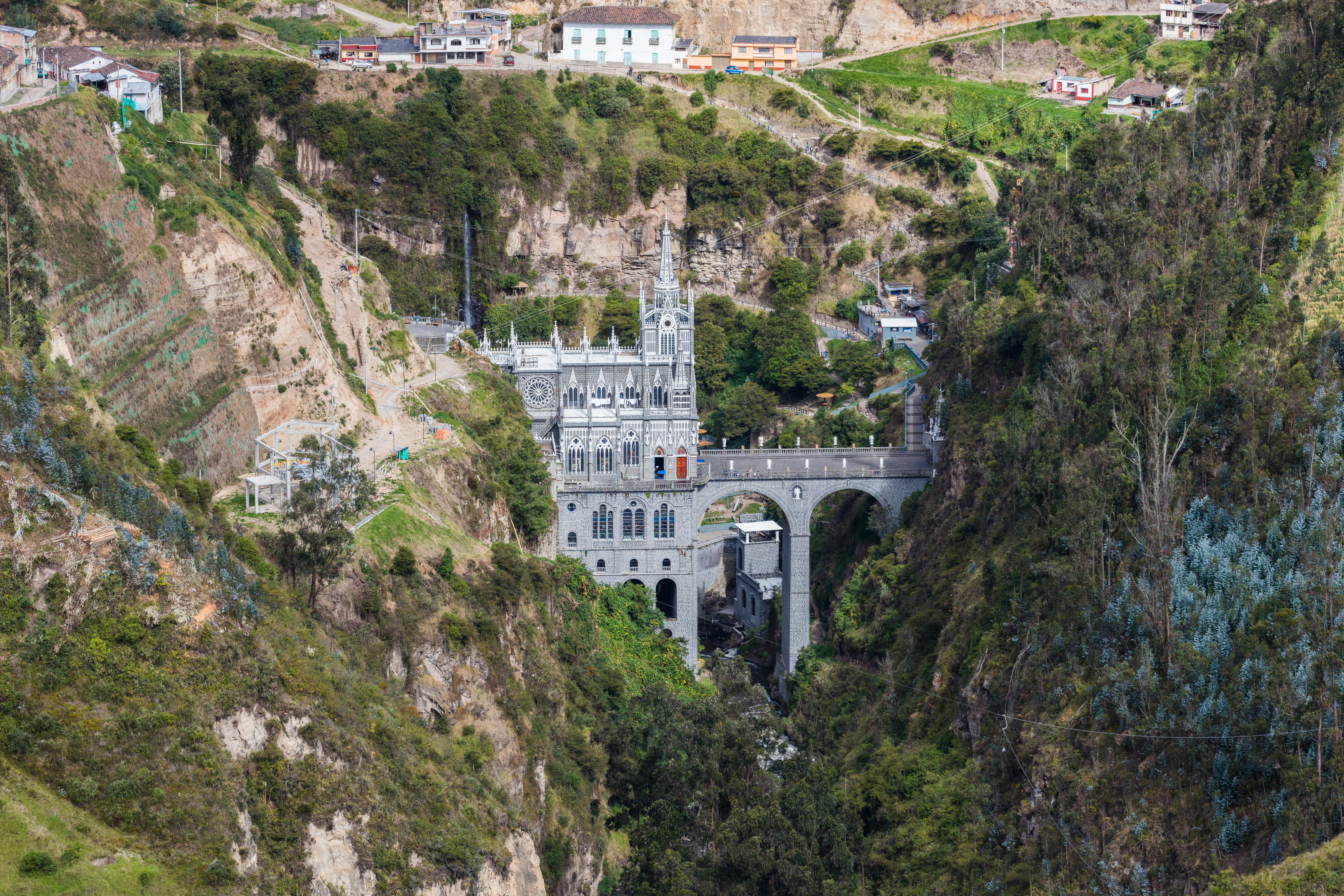 Sanctuary of Las Lajas, Ipiales, Colombia